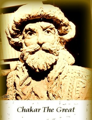 Statue of Mir Chakar Khan